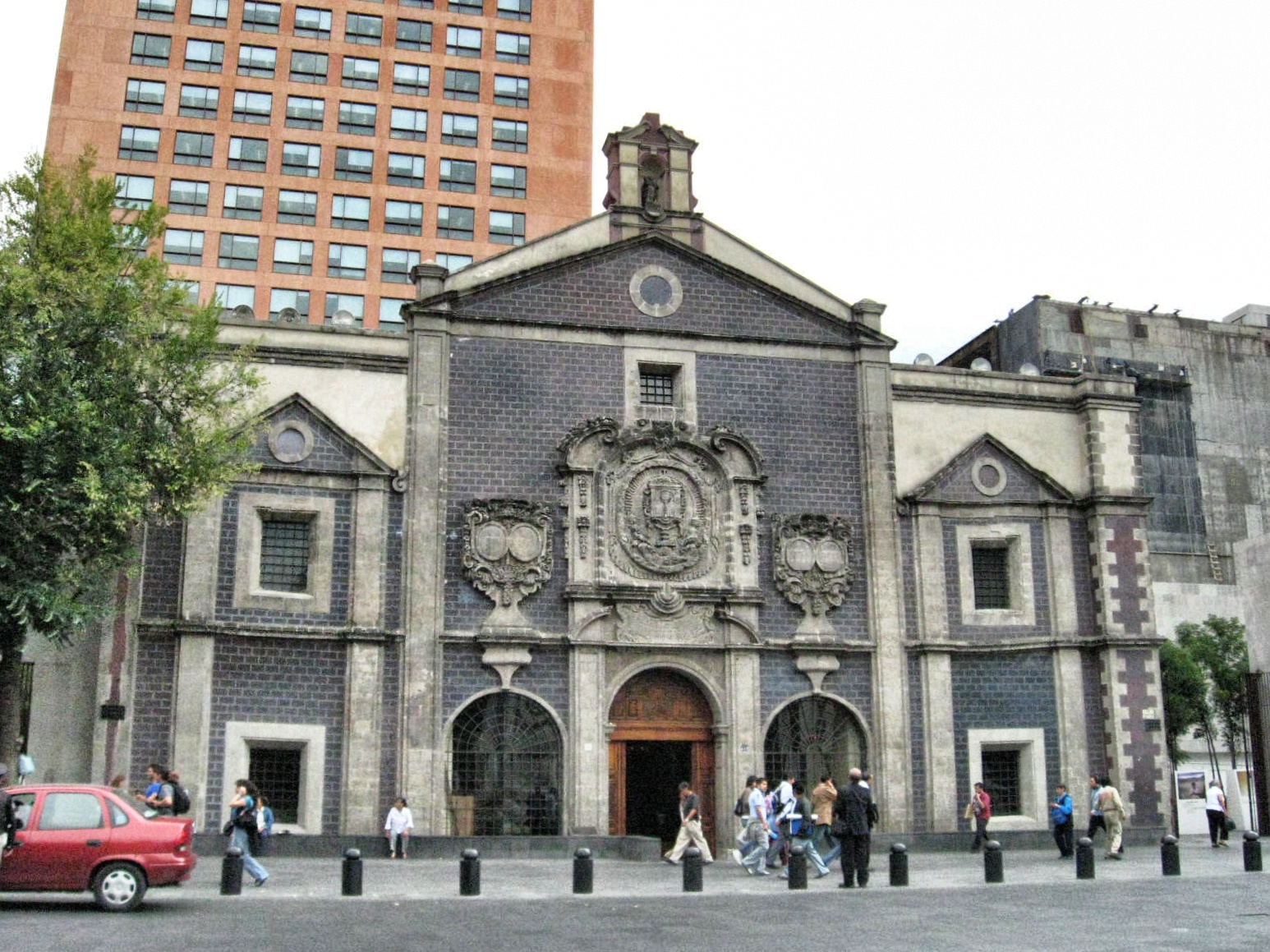 Ex Temple of Corpus Christi on Juarez Street in the Historic Center of Mexico City. In front of it is a plaque that reads "The ancient Temple of Corpus Christi, historic monument of the 18th century, was reintegrated as part of Mexico City's cultural heritage. Goverment of the Federal District-Instituto Nacional de Antropología e Historia-September of 2004" Since July 14, 2005, this building is the seat of the General Notarial Archives of the Government of the Federal District.